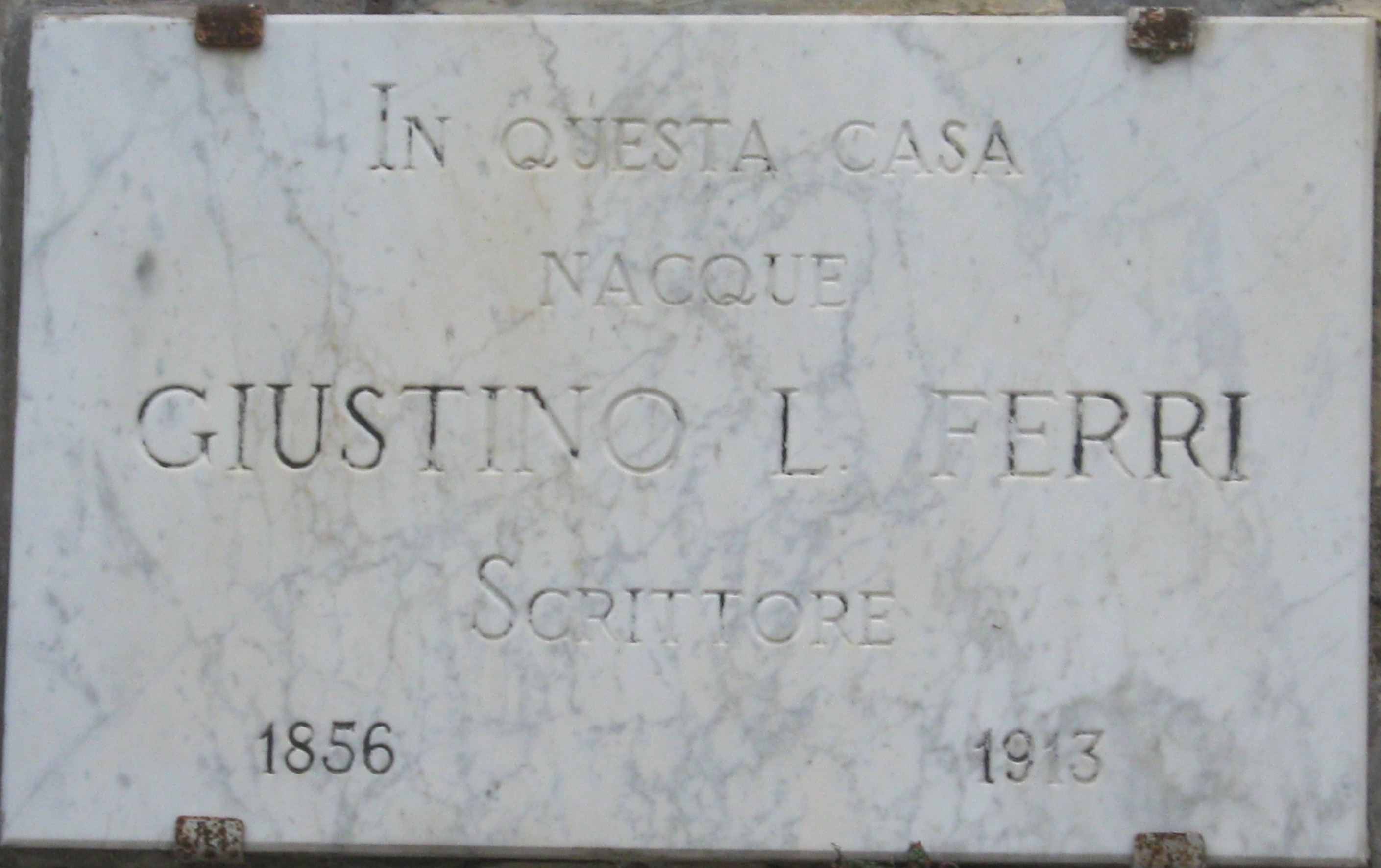 Stone inscription placed on the birth house of Giustino L. Ferri (1856-1913), italian writer, in Picinisco (Italy).